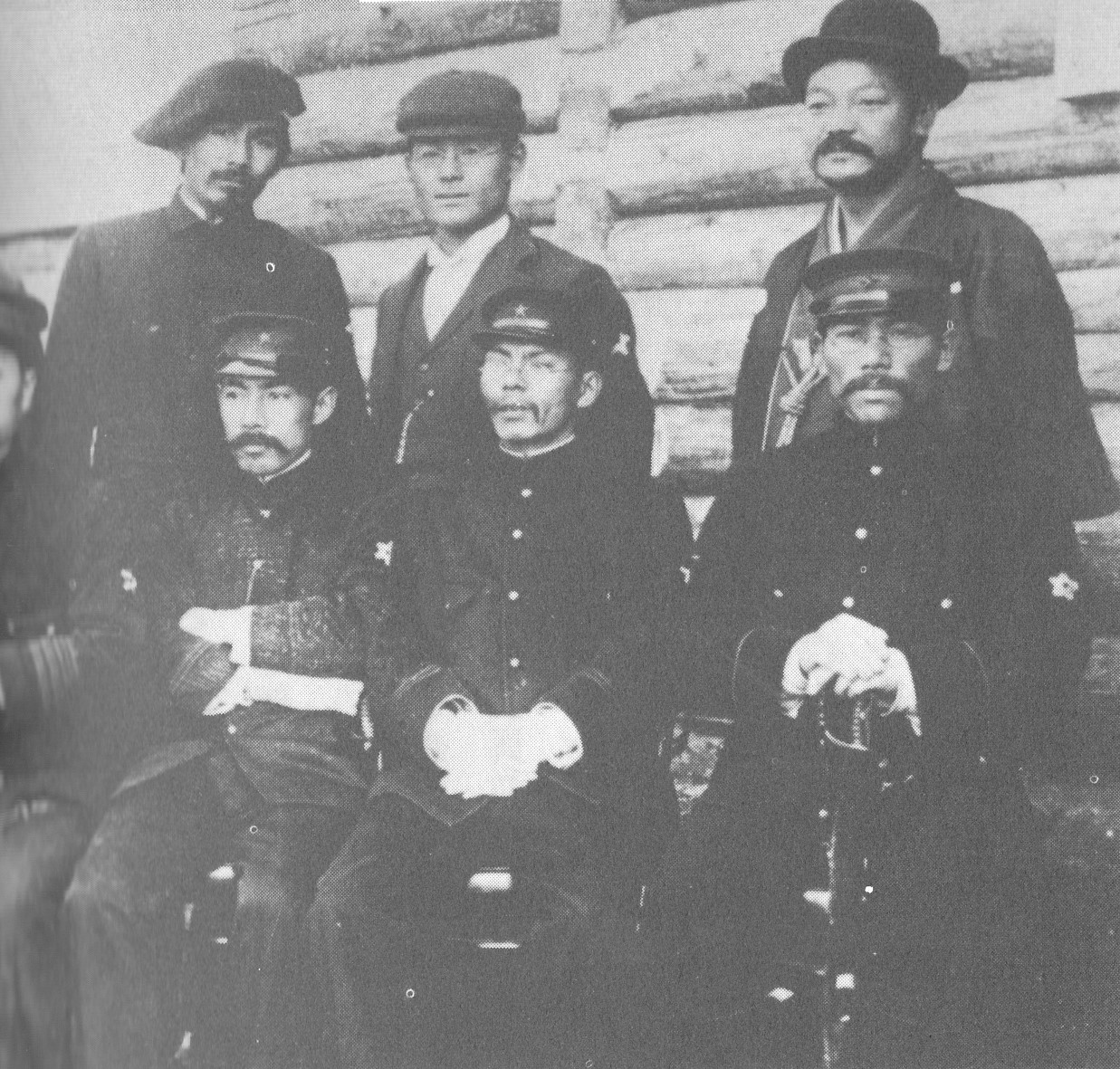 Kumagai Morikazu with colleagues on Sachalin-trip. Morikazu back row left side